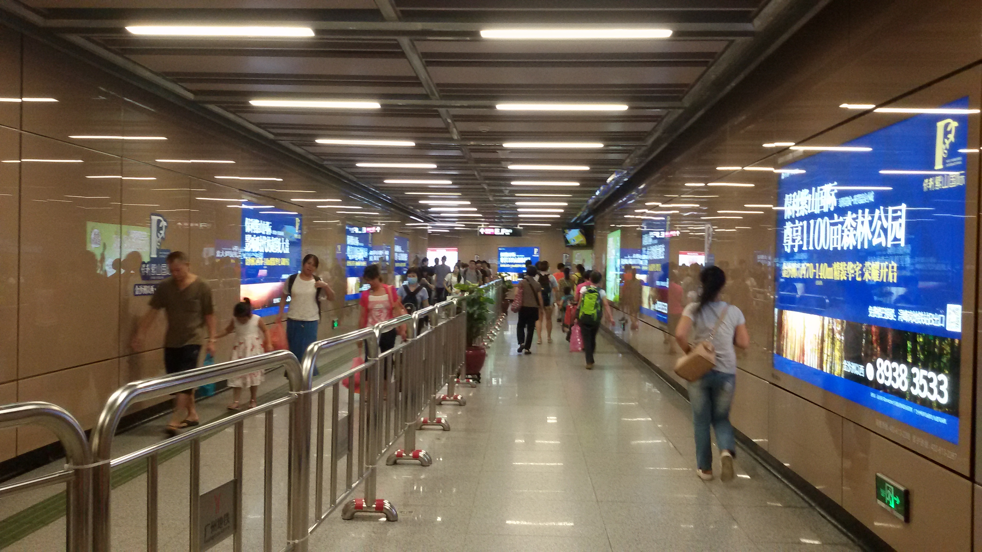 Huangsha Station Transport Pass 粵語: 黃沙站嘅轉車通道